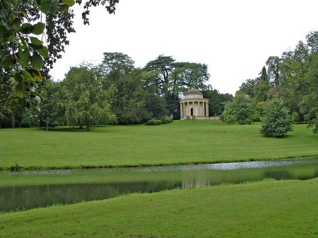 The Temple of Ancient Virtue, Stowe Landscape Garden, Buckinghamshire The Temple of Ancient Virtue. This temple honoured four great Greek men: Socrates, Homer, Lycurgus and Epaminondas. They represented virtues apparently lacking in Lord Cobham's contemporaries. The Temple of Modern Virtue was deliberately constructed as a ruin.